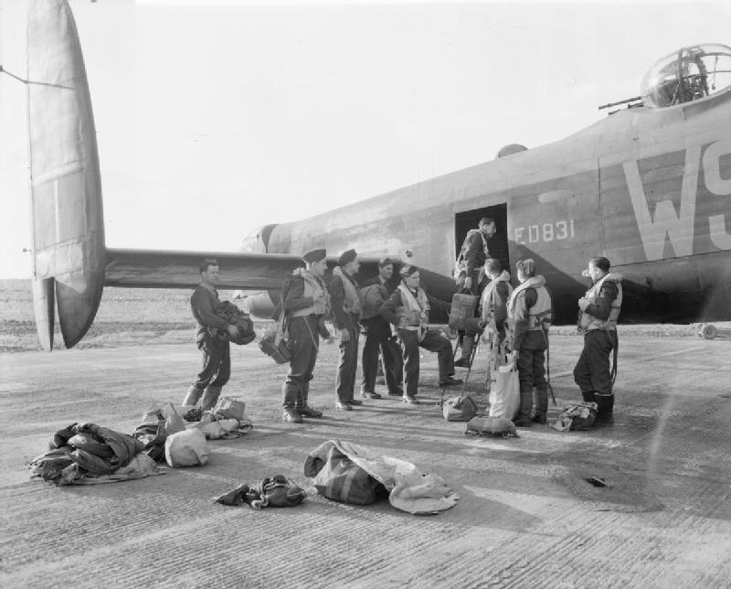 Royal Air Force Bomber Command, 1942-1945. The crew of Avro Lancaster B Mark III, ED831 'WS-H', of No 9 Squadron RAF, captained by Squadron Leader A M Hobbs RNZAF, boarding their aircraft at Bardney, Lincolnshire, for a raid on the Zeppelin works at Friedrichshafen, on the shores of Lake Constance (Bodensee), Germany. This special raid introduced novel tactics devised by No. 5 Group, among which was the 'shuttle' technique. After bombing the target, the Lancasters flew to Blida in North Africa, where they were refuelled and rearmed, returning to the United Kingdom two nights later and attacking La Spezia, Italy, en route. Six days later, Hobbs and his crew were shot down and killed in ED831, while returning from a raid on Gelsenkirchen, Germany